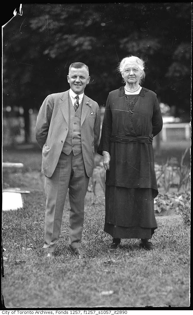 Robert Young Eaton with his mother Margaret Herbison Eaton. Note: City of Toronto Archives incorrectly identifies the woman as Flora McCrae Eaton.